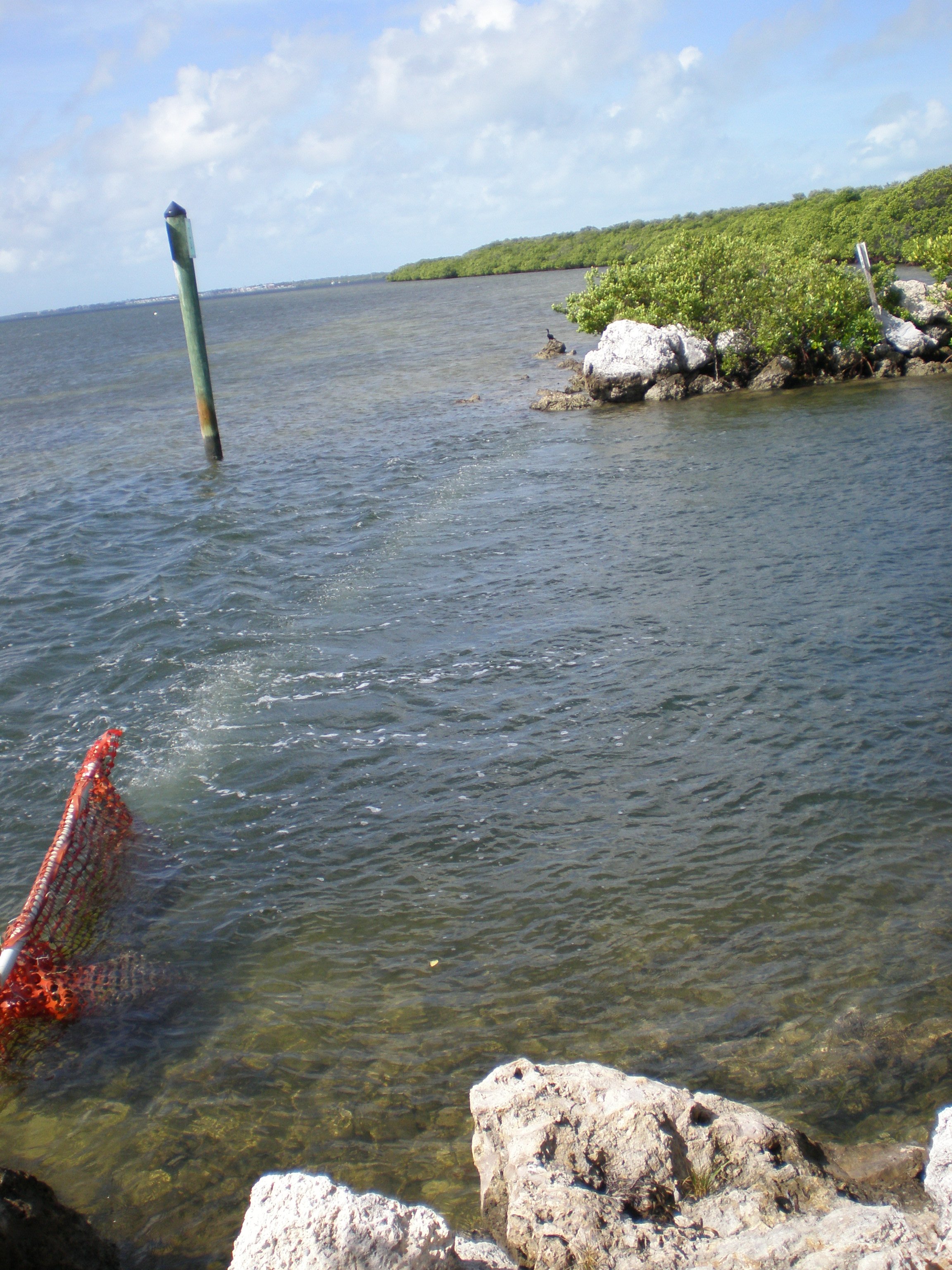 A pipe is laid on the seabed which blows bubbles... These stop weed & debris floating into the Marina ....Clever !